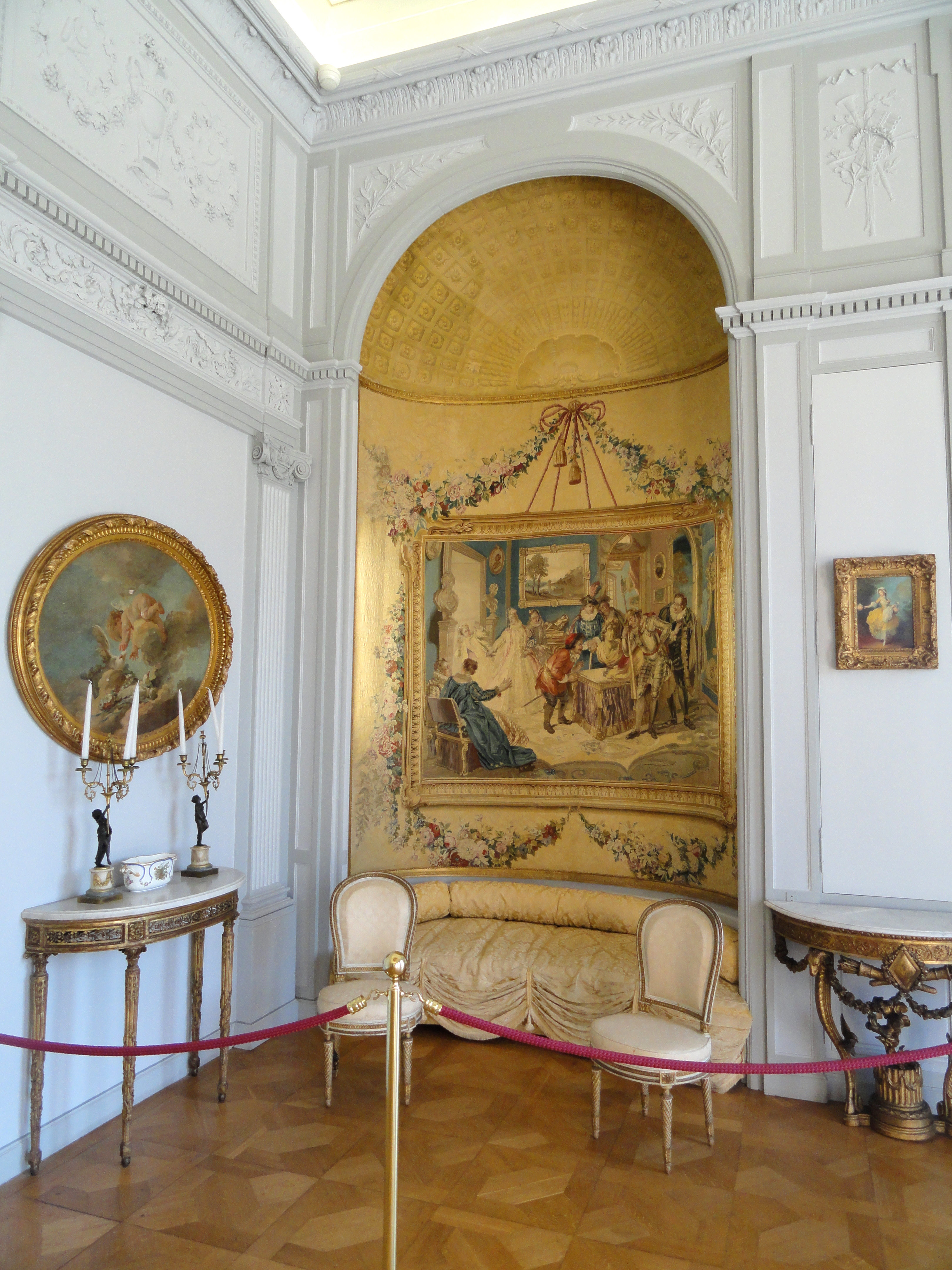 Salon - fumoir dit Petit salon. Interior view of the Villa Ephrussi de Rothschild, Saint-Jean-Cap-Ferrat, France.